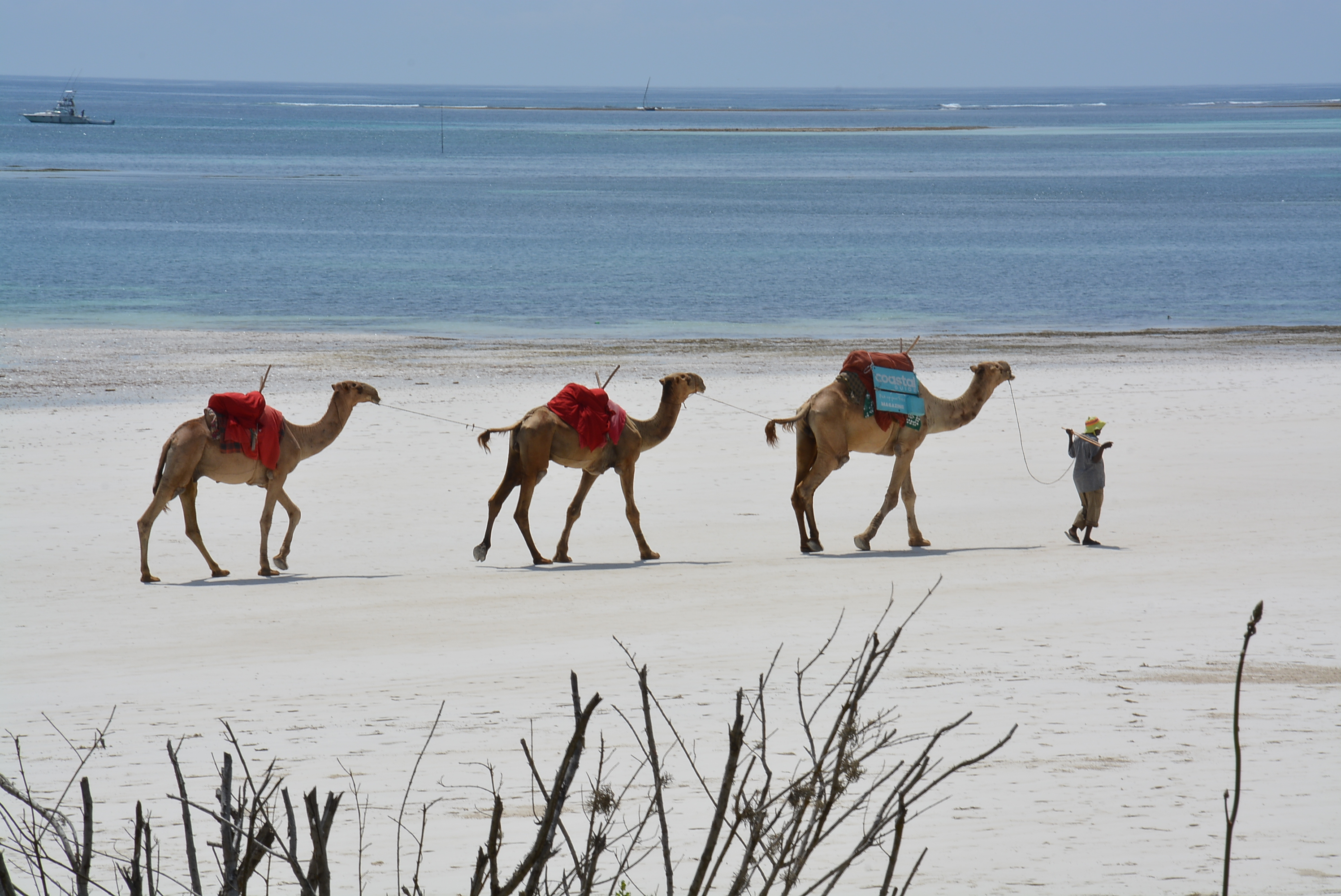 Doubling up as mobile billboards, camel rides are a popular attraction on Diani beach This is an image with the theme "Africa on the Move or Transport" from: Kenya